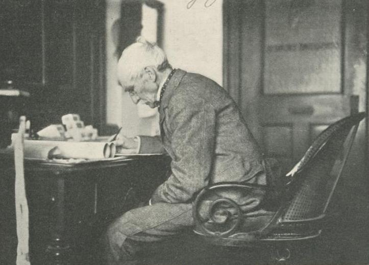 An elderly Charles Haynes Haswell at work at his desk, ca. 1905